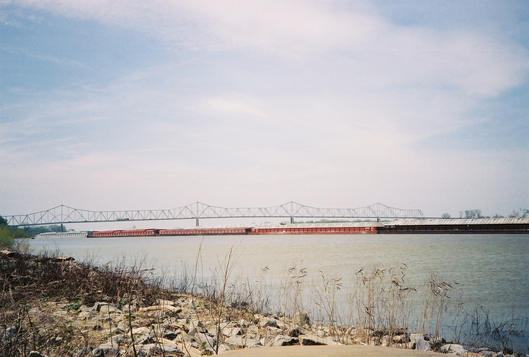 The Cairo Ohio River Bridge.